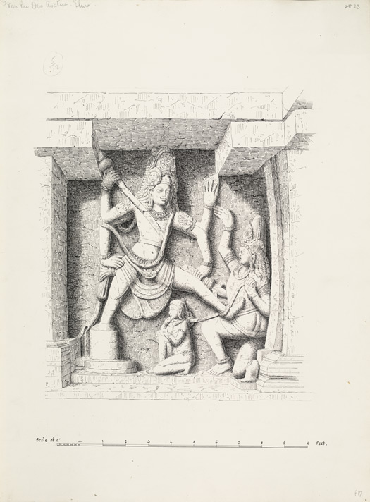 From the source, Illustrations of Siva rescuing Markandeya from Dasavatara Cave, Cave XV, at Ellora from James Burgess' 'Original Drawings [of] Elura Cave Temples Buddhist and Brahmanical.' The spectacular site of Ellora, in Maharashtra, is famous for its series of Buddhist, Hindu and Jain cave temples excavated into the rocky façade of a cliff of basalt. The works were done under the patronage of the Kalachuri, the Chalukya and the Rashtrakuta dynasties between the sixth and the ninth centuries. The Dashavatara Cave was started as a Buddhist monastery, but in the eight century was converted into a Hindu sanctuary under the patronage of the Rashtrakuta king Dantidurga (r.c.730-55). It consists of an open court with a free-standing monolithic mandapa in the middle and a two-storeyed hall at the back, the original Buddhist monastery, the walls of which are covered with reliefs illustrating Hindu mythology. The columns are decorated with elaborate pot and foliage motifs carved on the shafts. Inscribed: 'From the Das Avatra Elura'